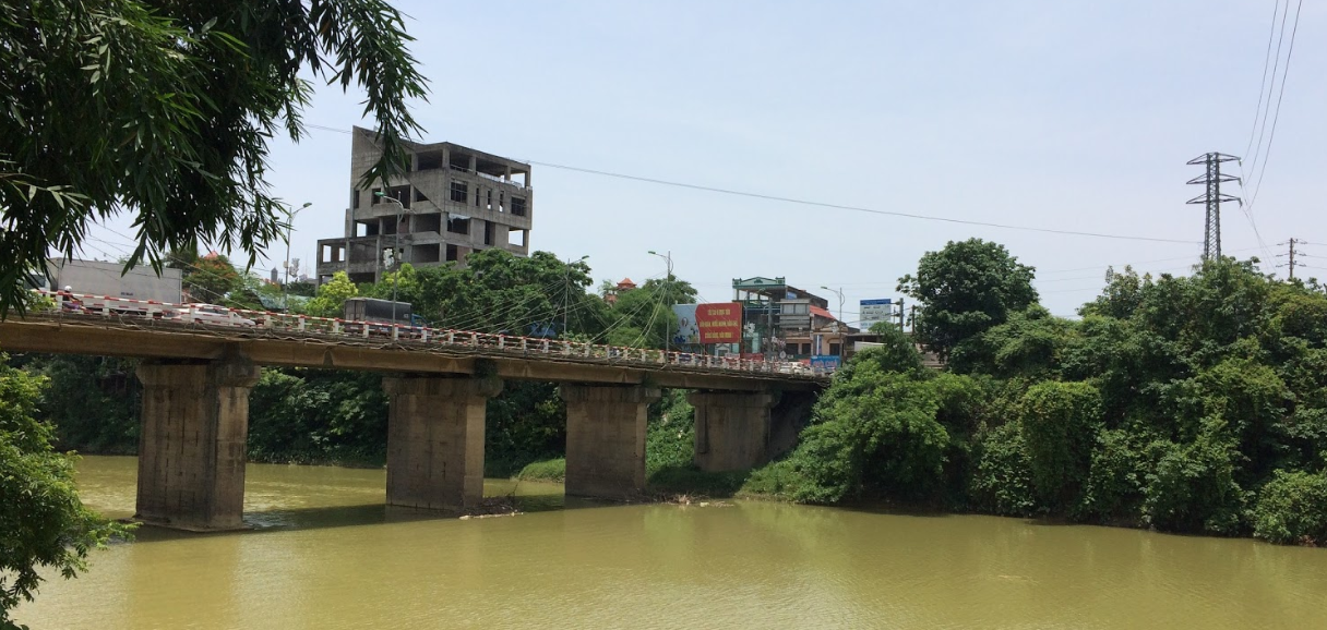 Cầu Gia Bảy